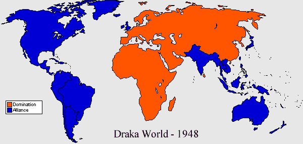 Drakaverse world map 1948